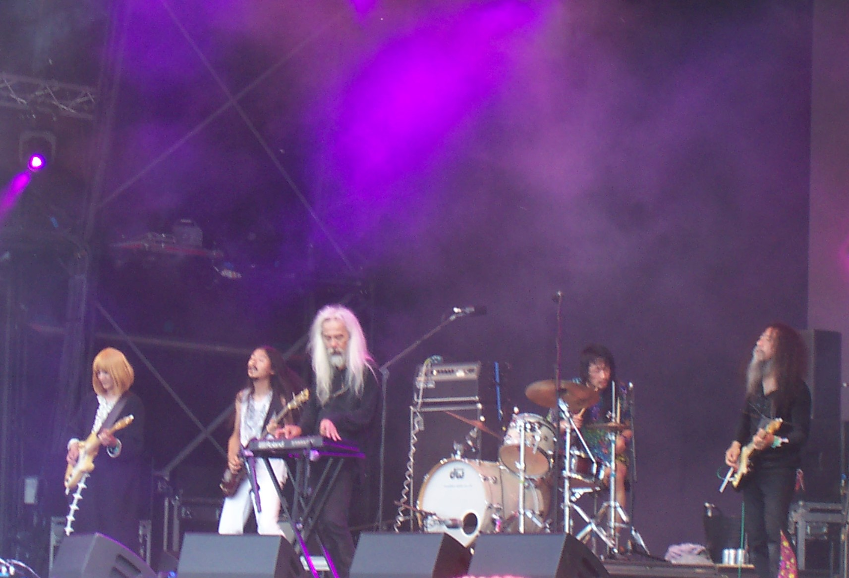 Acid Mothers Temple on the West Holts stage at Glastonbury 2019